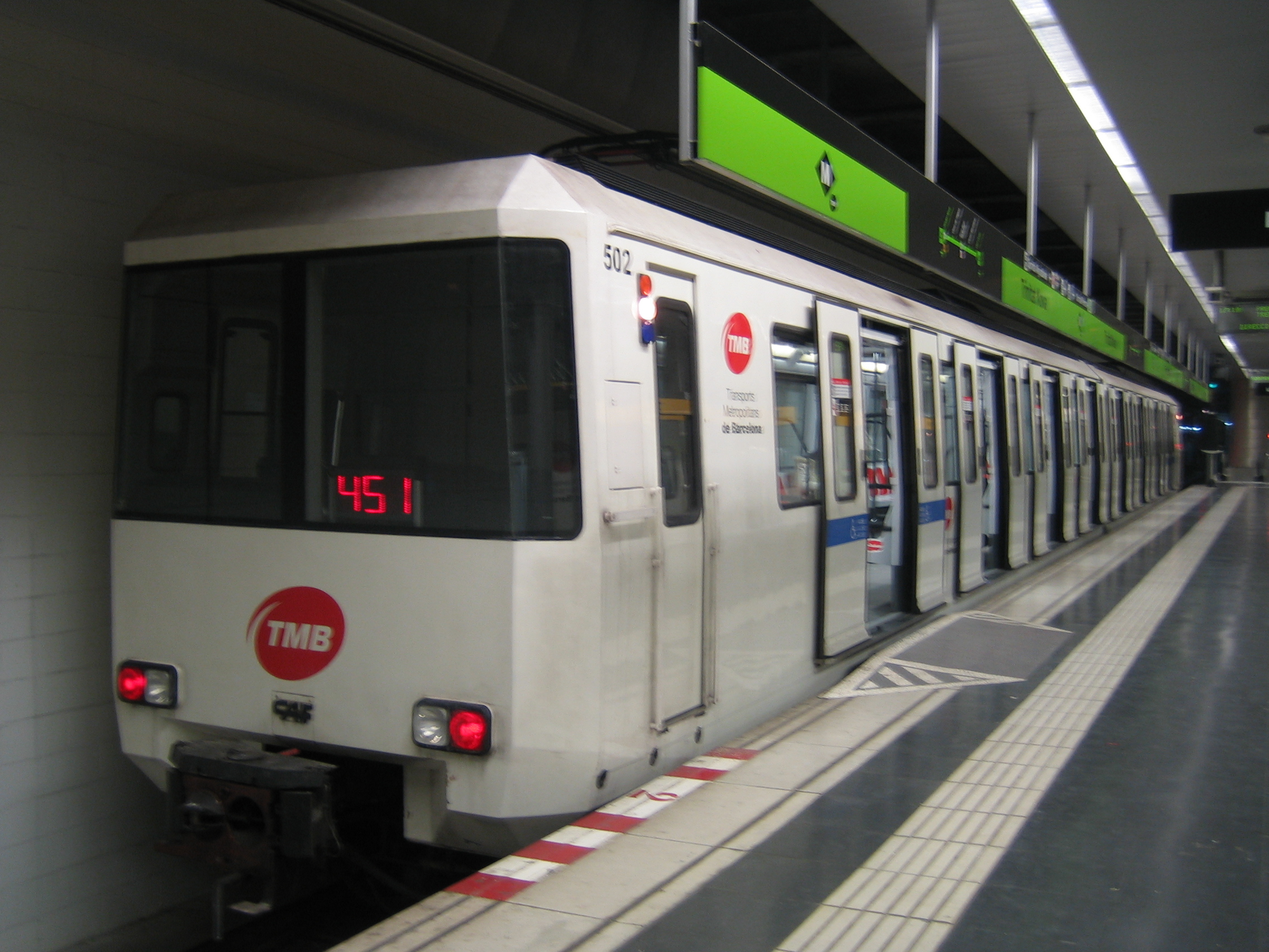 Train type 500 of Barcelona's metro at Trinitat Nova station